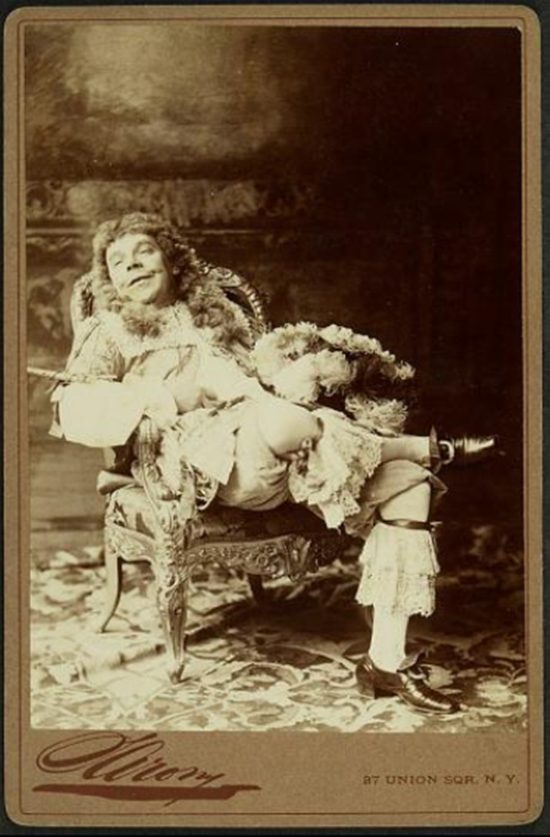 Coquelin aîné (Benoît-Constant Coquelin, 1841-1909) as Mascarille in Molière's Les Précieuses ridicules.